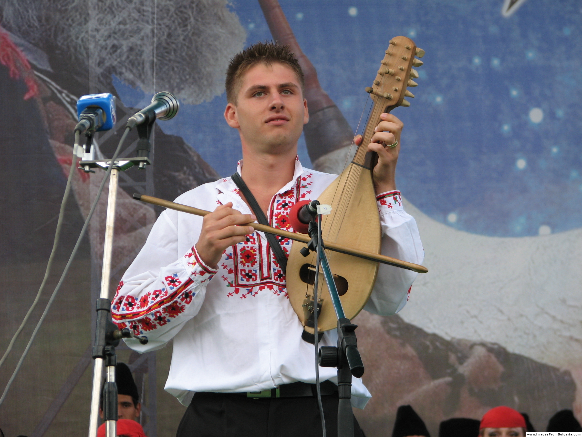 Rozhen National Folklore Fair, Bulgaria. Author: Stoycho Bozukov.